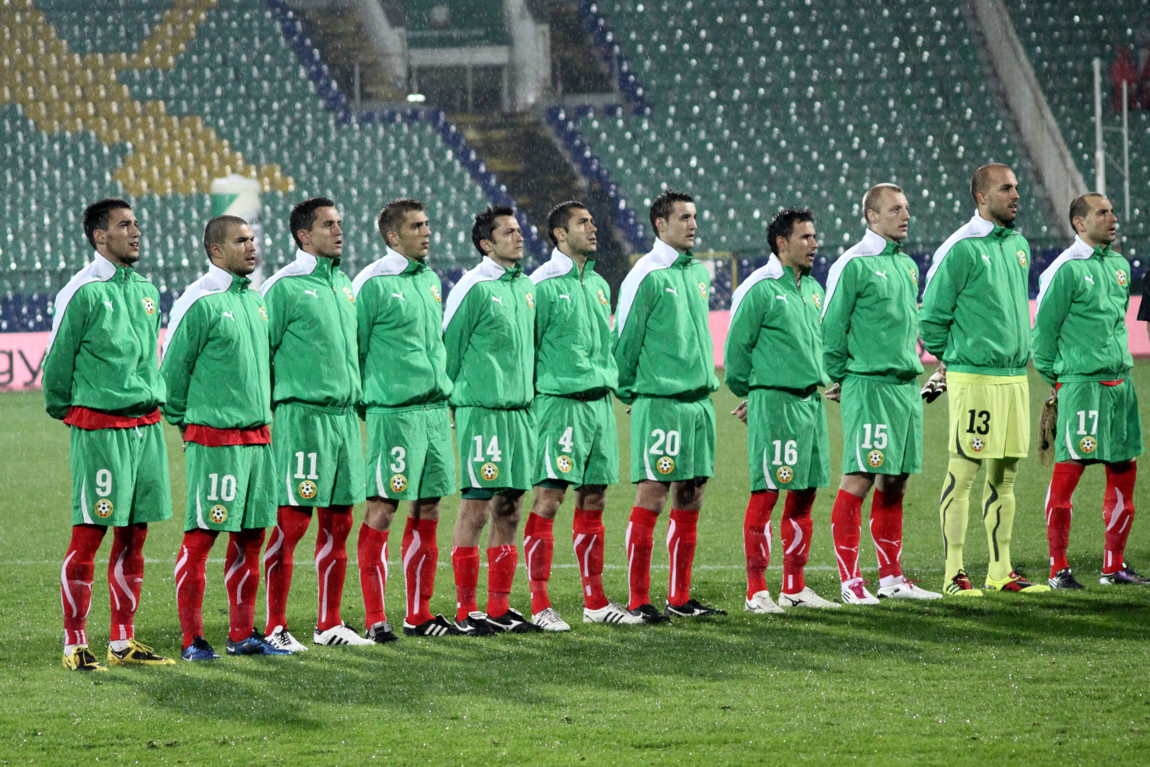 Bulgarian national football team 2010